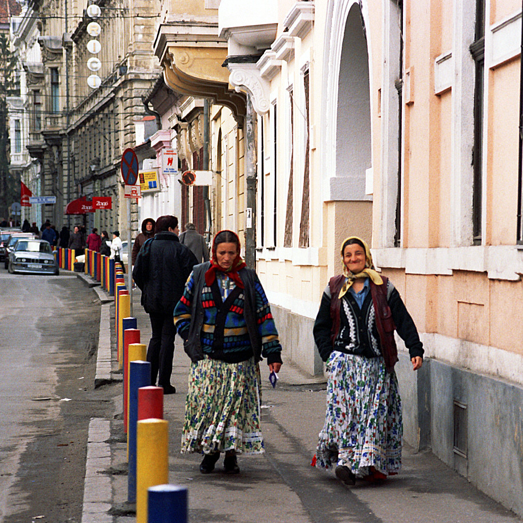 Two Gypsies in Cluj-Napoca, Romania